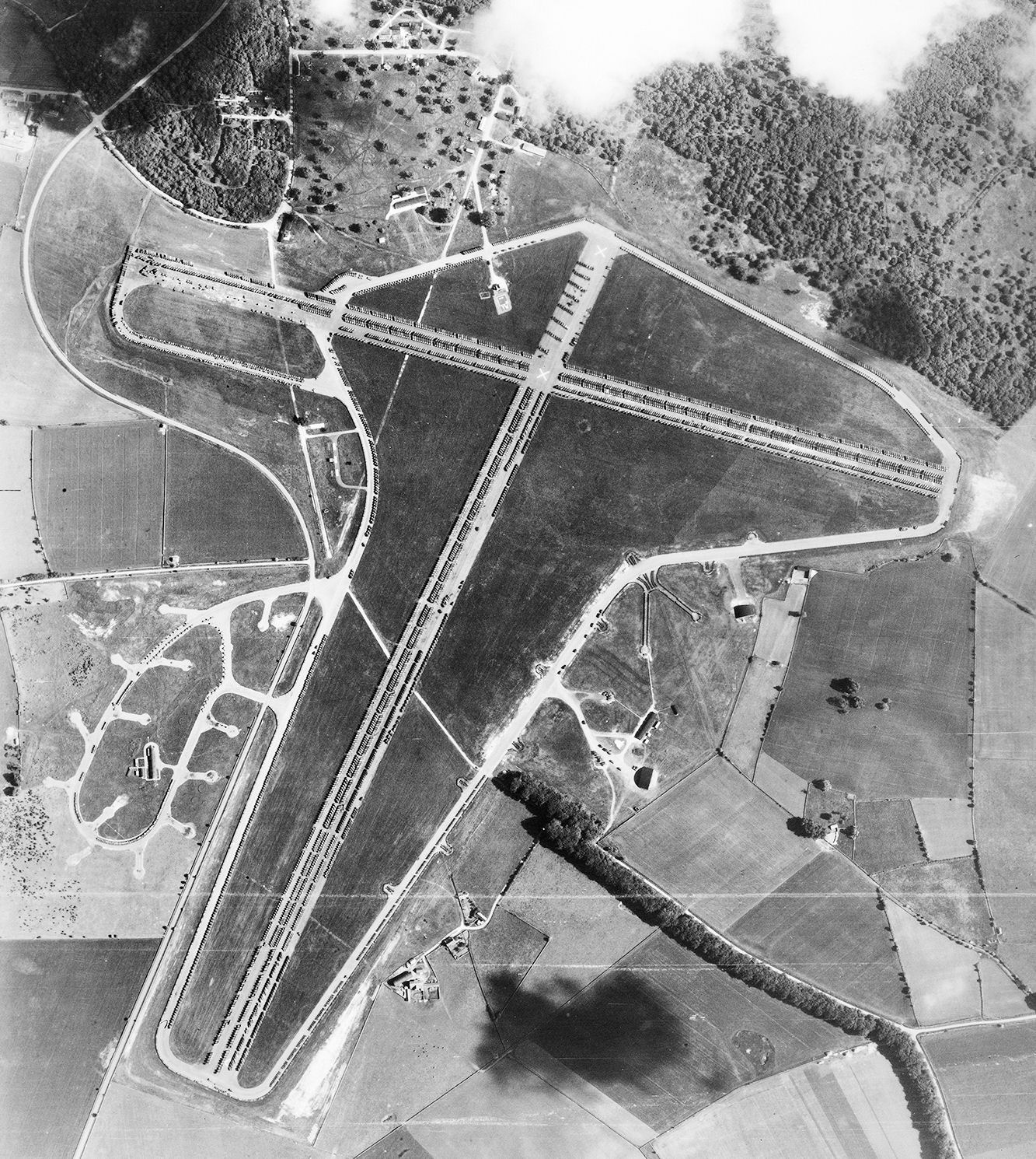 Aerial photograph of Chedworth airfield looking north, the control tower and airfield code are to the top left of the runway intersection, 7 June 1946. Photograph taken by No. 540 Squadron, sortie number RAF/106G/UK/1558. English Heritage (RAF Photography).